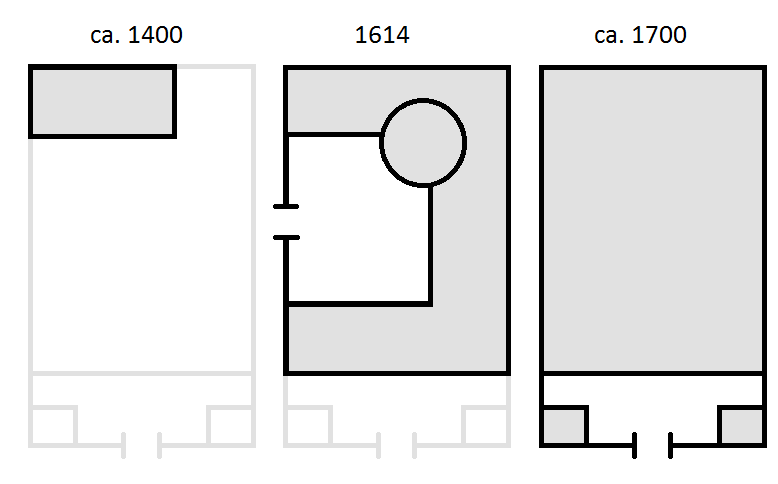 Plan of the Menkemaborg (Uithuizen, Groningen, Netherlands) around the 14th century, in 1614 and around 1700, when the last changes were made. The current Menkemaborg has been fitted to look like how it was around 1700.